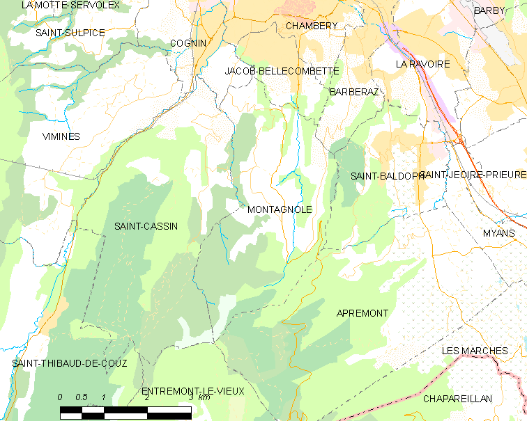 Map of French municipality